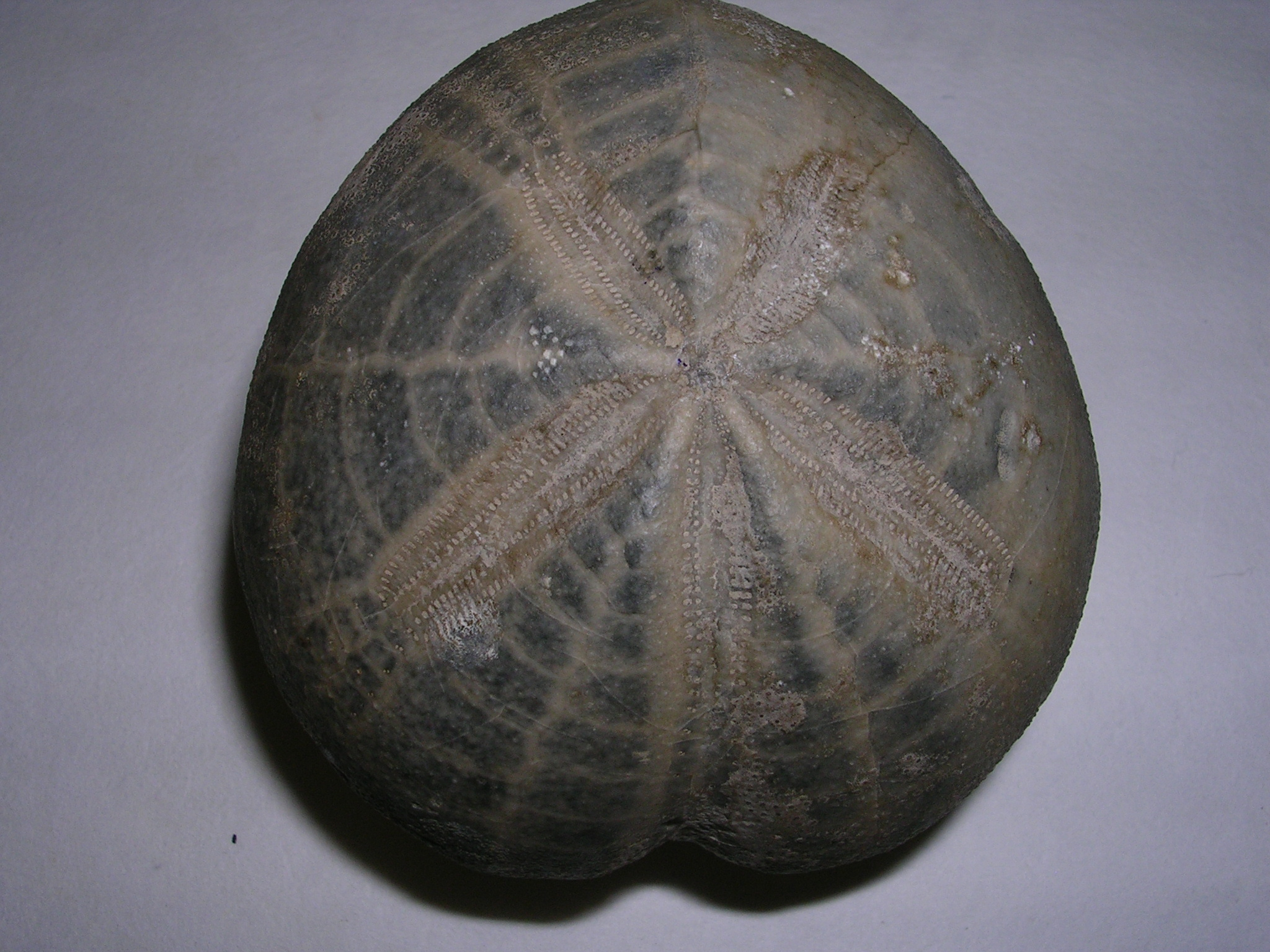 Micraster coranguinum fossil in a laboratory of practices of the Faculty of Sciences of the University of Corunna.